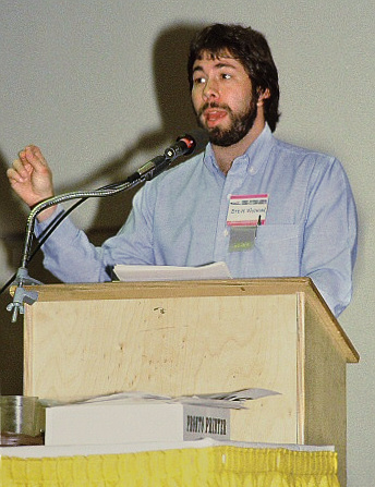 Apple Convention, Boston, Spring 1983 Permission granted to copy, publish or post but please credit "photo by Alan Light" if you can